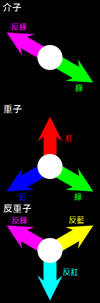 Hadrons always have zero total color charge. (annotations in tranditional chinese)